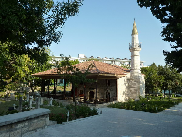 Mangalia MosqueRomână: Moscheea din Mangalia.Vezi detalii aici.